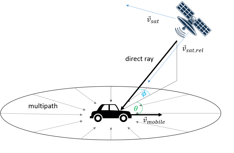 Developed according to [1].